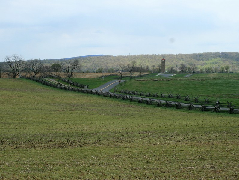 Sanken-Road, position ofRodes Alabama brigade